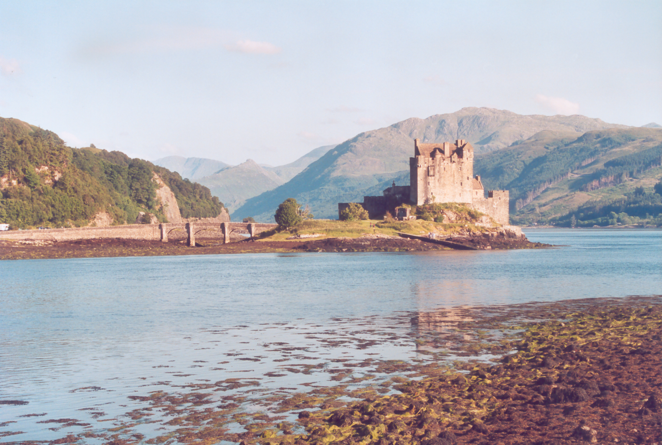 Eilean Donan Castle in the Highlands of Scotland. Originally a MacKenzie stronghold, it passed into the hand of Clan MacRae as hereditary Constables of the castle and protectors of Clan MacKenzie. Amongst other movies, this castle was used in "Highlander" (1986), as the seat of Clan MacLeod (in reality the seat of Clan MacLeod is Dunvegan Castle).